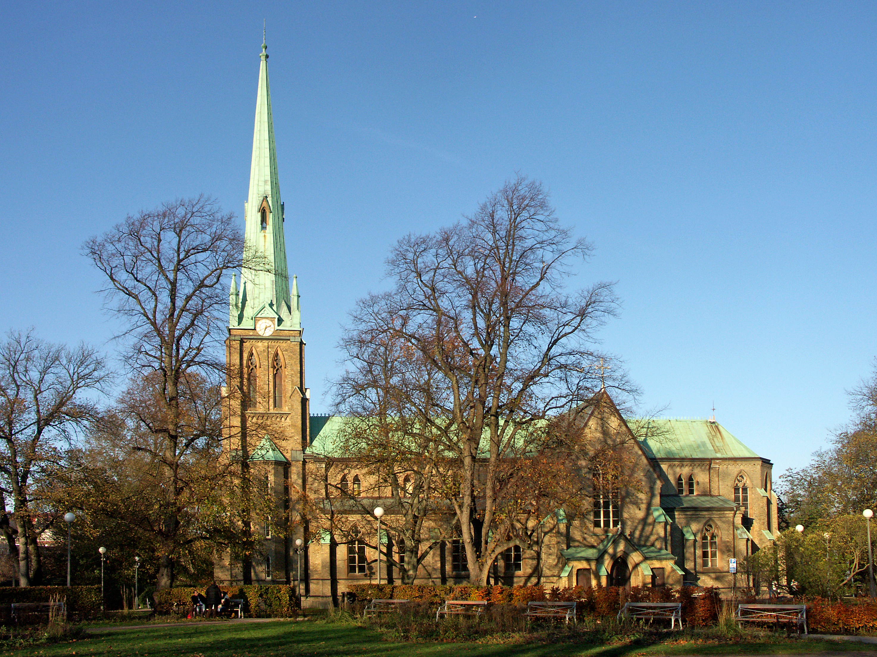 Hagakyrkan, parish church of Haga parish in Gothenburg